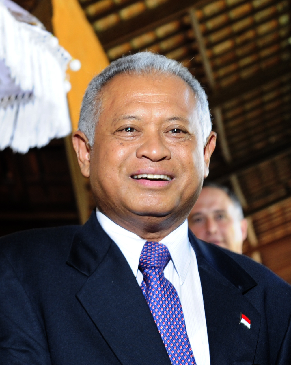 Secretary of Defense Leon E. Panetta is greeted by Indonesian Minister of Defense Purnomo Yusgiantoro before a bilateral meeting in Bali, Indonesia, Oct. 23, 2011. (DoD photo by Tech. Sgt. Jacob N. Bailey, U.S. Air Force) (Released)